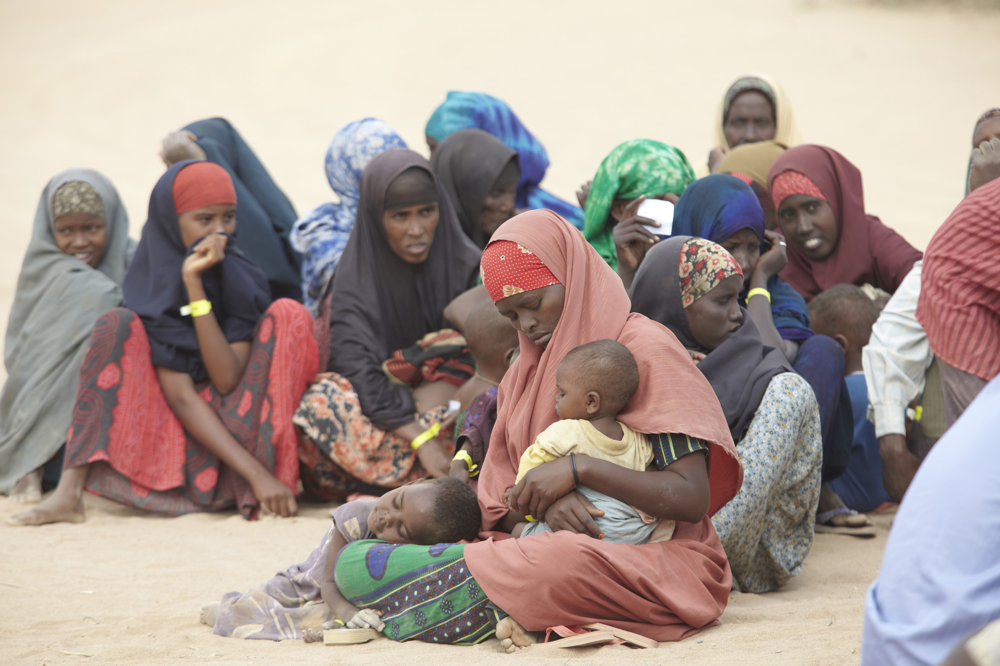 Nearly 60,000 people arrived in Dadaab last month, fleeing the food crisis in Somalia. The majority are women and children, many of whom have braved a difficult and dangerous journey across the desert to get here. These new arrivals wait to be registered - many of them face a wait of more than six weeks for registration due to delays and the massive influx. In the meantime they receive food rations that will last 21 days at most. Photo: Andy Hall/Oxfam